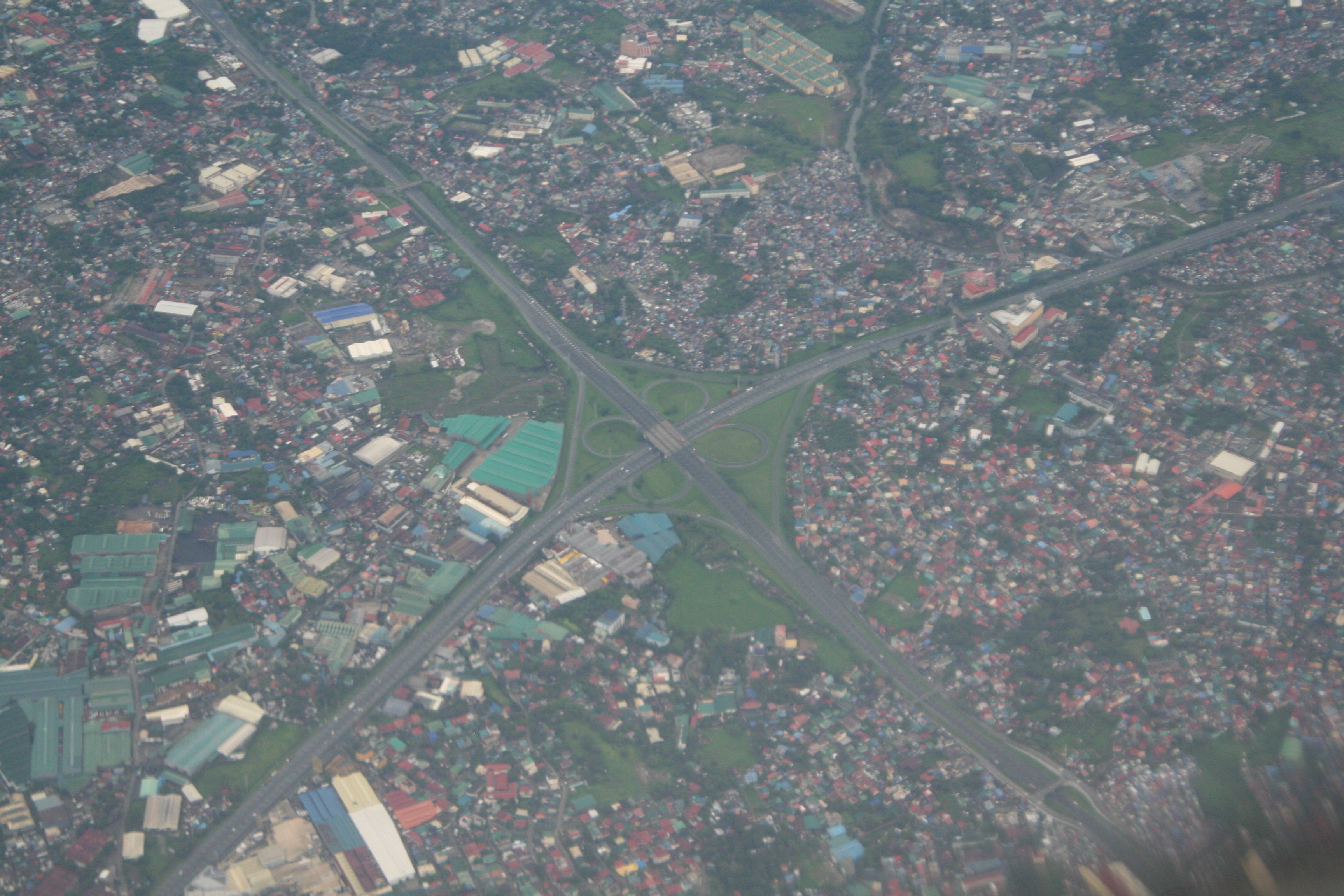 Aerial view of the Smart Connect Interchange in Valenzuela, Metro Manila in the Philippines, taken on board China Eastern Airlines Flight 212 from Manila to Shanghai. Tagalog: Tanawin ng Palitang Smart Connect sa Valenzuela, Kalakhang Maynila sa Pilipinas mula sa himpapawid, na kinunan sakay ang Lipad 212 ng China Eastern Airlines mula Maynila patungong Shanghai.